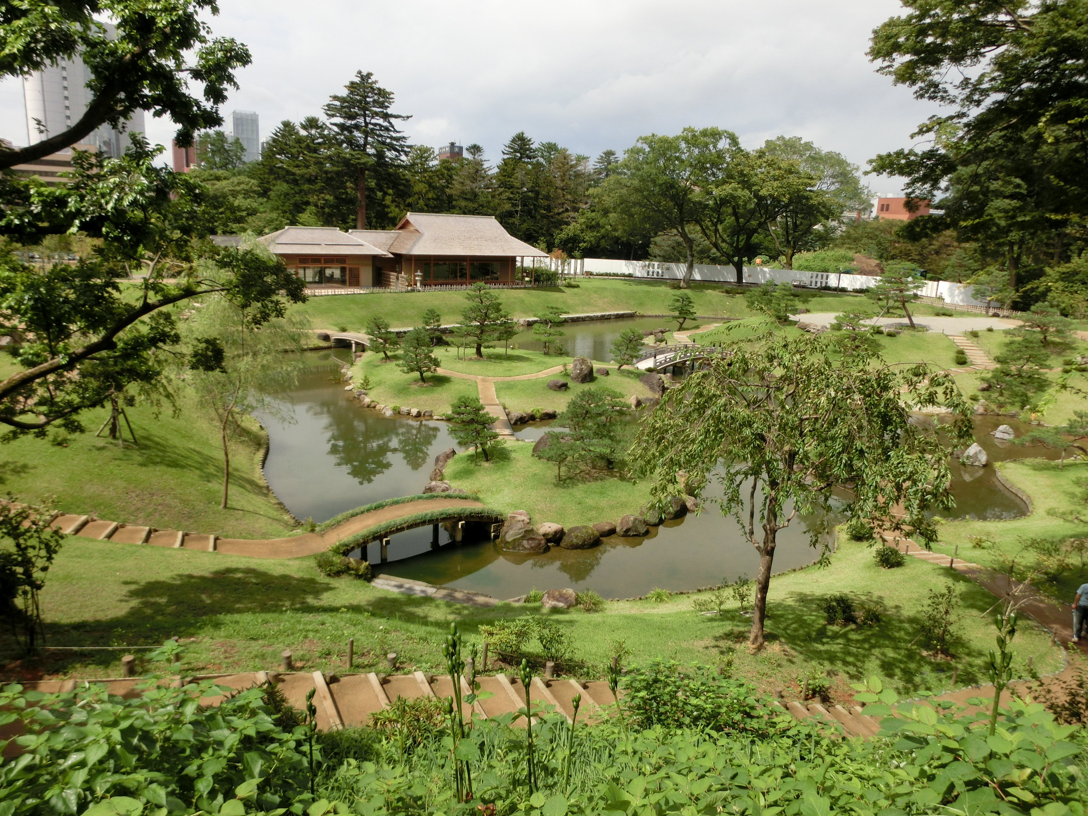 Gyokusen Inmaru Garden